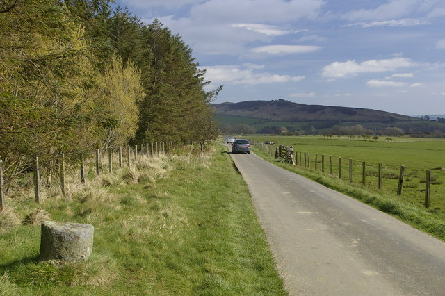 Lane to Vindolanda on line of Roman Stanegate The roman road is buried beneath the modern road. The stump of stone on the left is the remains of a roman milestone marling the sixteenth roman mile west of Corbridge. It is recorded as being intact in 1725, some time after which the upper section of the milestone was broken off and split into two to provide gateposts. It was inscribed BONO REIPUBLICAE NATO, `To him who was born for the good of the State', a compliment to the reigning emperor.